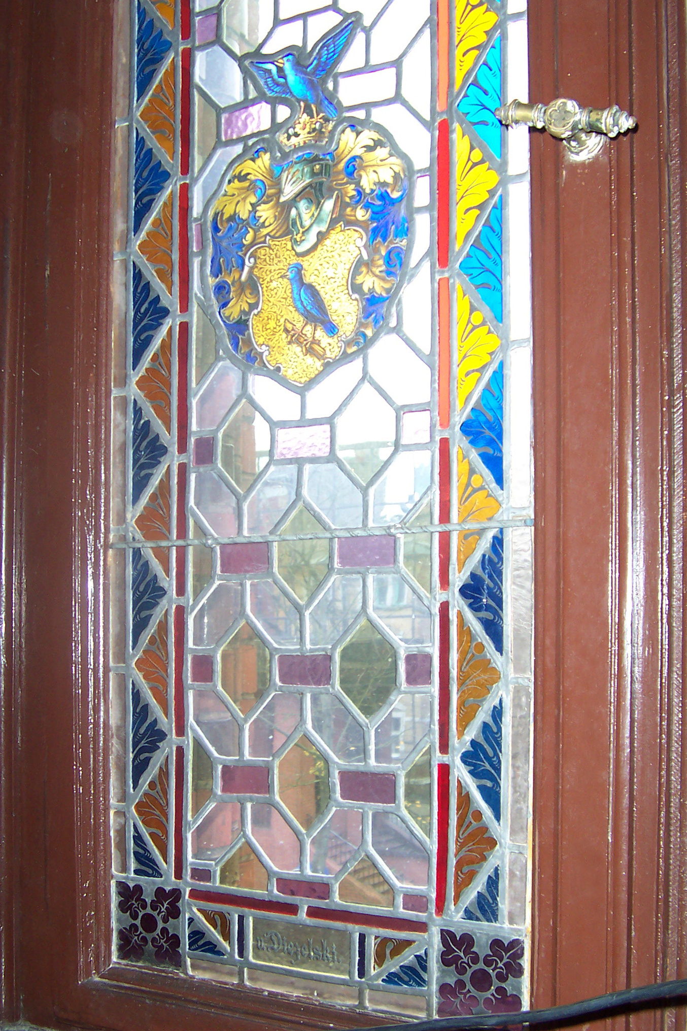 Poland, Lebork Townhall, Coat of Arms von Diezelski Family, Dziecielski, Dziecielska